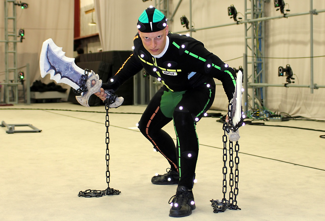 Joseph Gatt as "Kratos" on the set of "God of War: Ascension"